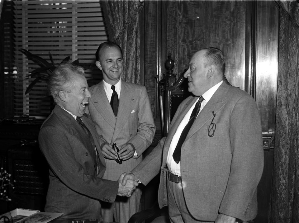 The Mayor of Montreal, Camillien Houde (right), shake hands with Desiré Defauw (left) under the eyes of the impresario Peter Béique (middle). They are in the mayor's office.